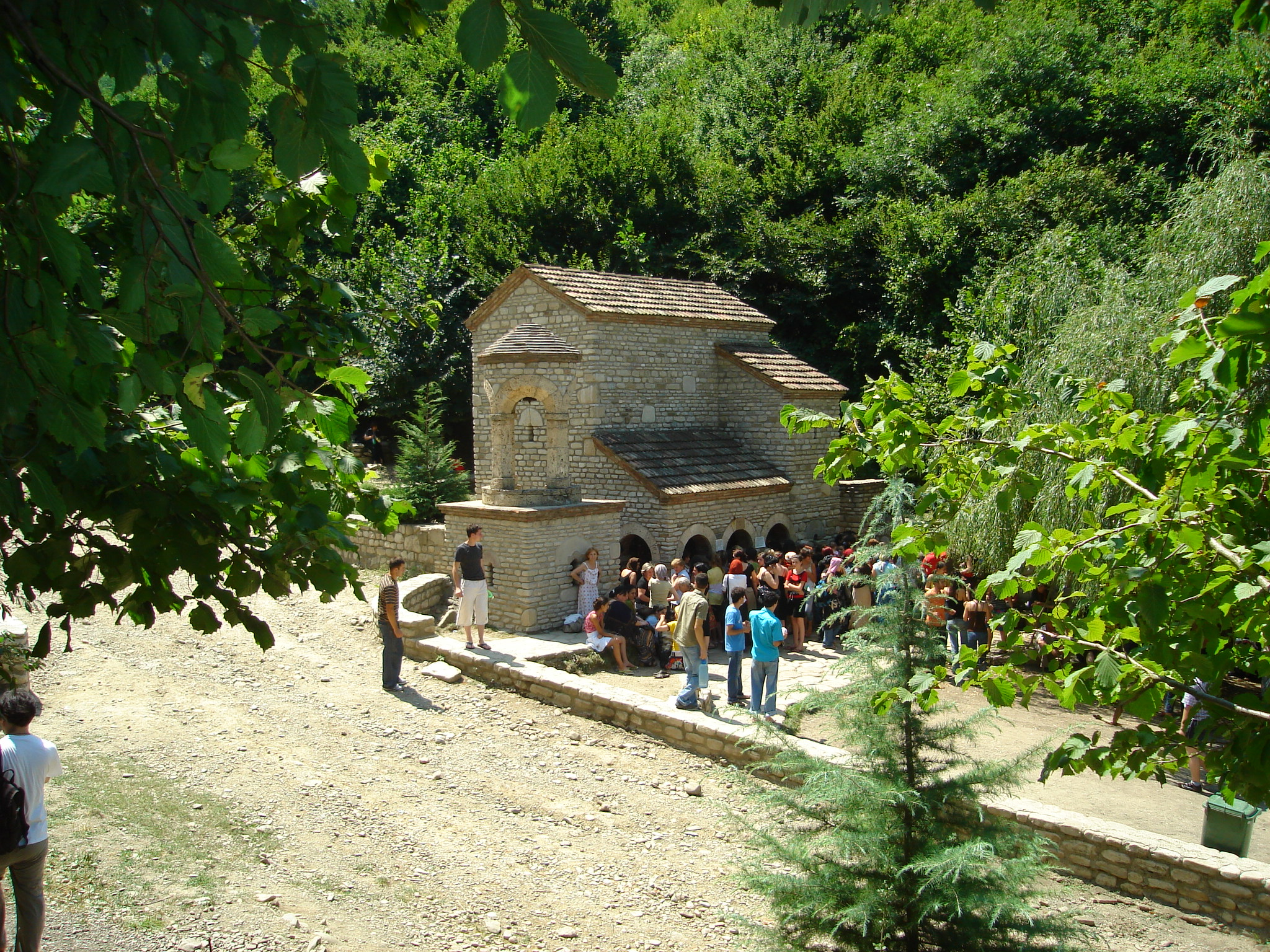 Bodbe Monastery near Sighnaghi, Georgia